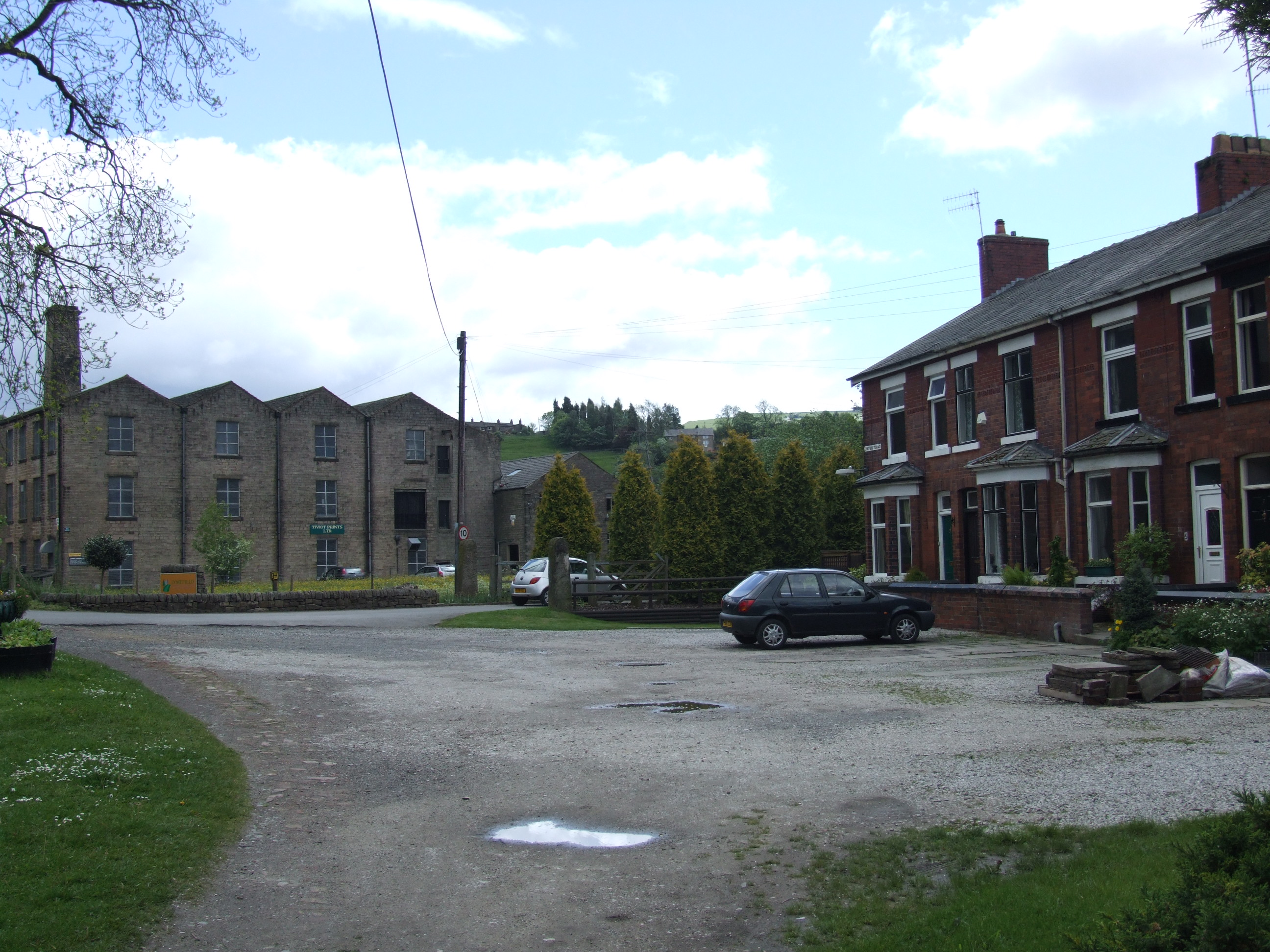 Broadbottom is a village, near Hyde, Greater Manchester in the valley of the River Etherow. Lymefield Mill and Lymefield Terrace. - Google Maps - Google Earth